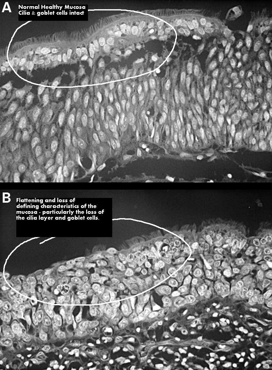 Squamous metaplasia of pseudostratified respiratory epithelium of the nose